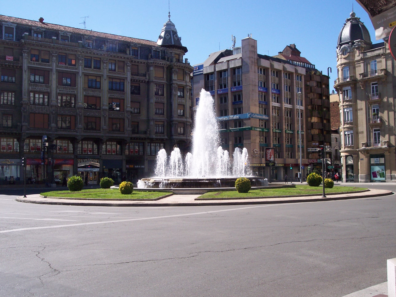 View of Santo Domingo´square in León, Spain.